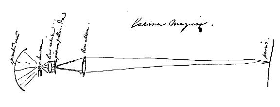 1694 sketch of the principle of laterna magica by Christiaan Huygens "speculum cavum (hollow mirror). lucerna (lamp). lens vitrea (glass lens). pictura pellucida (transparent picture). lens altera (other lens). paries (wall)."